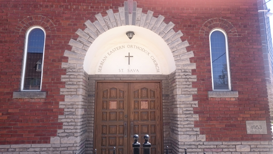 The side entrance of the Saint Sava Serbian Orthodox Church in Toronto.